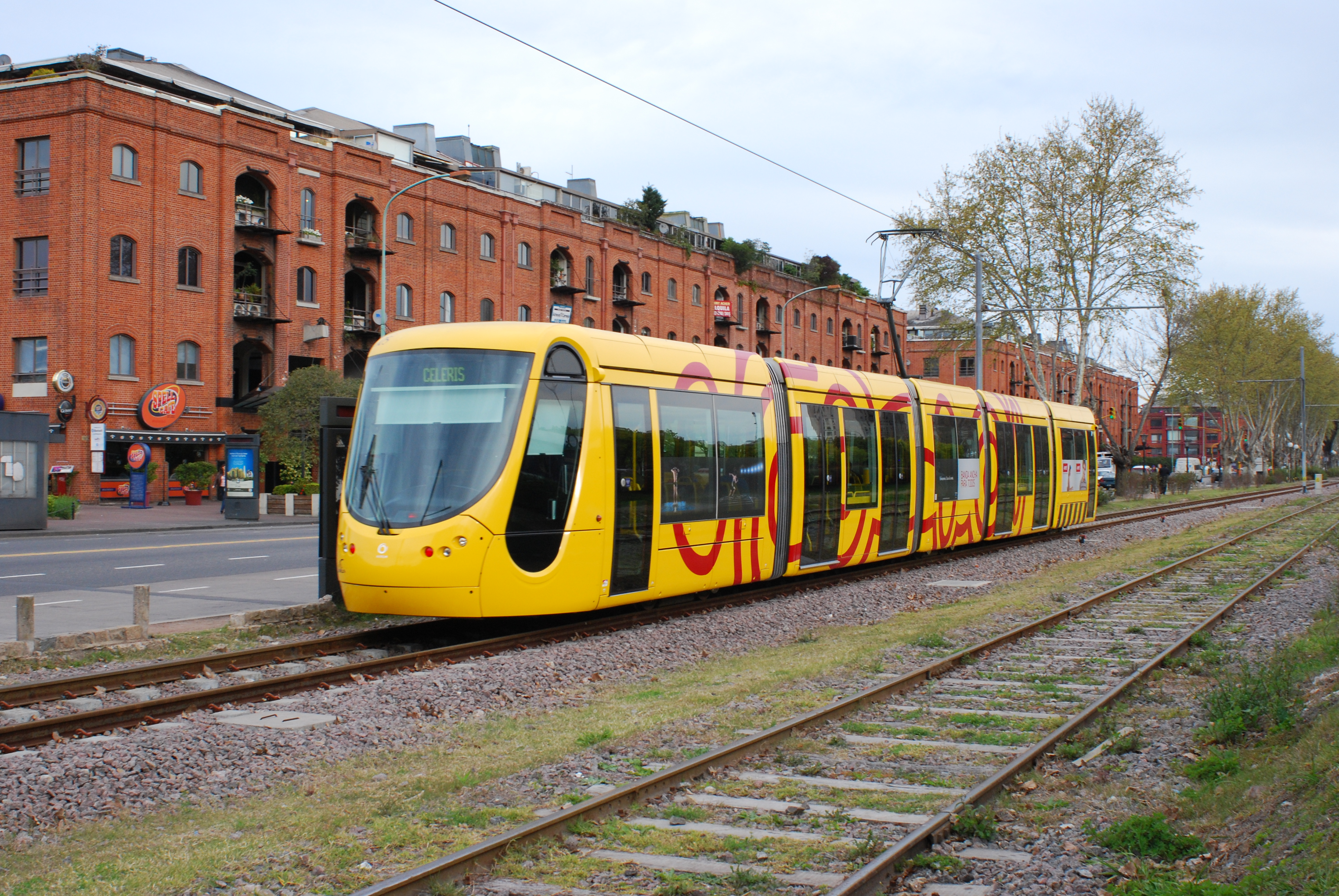 Loaned Mulhouse tram 05 running on the Puerto Madero Tramway in Puerto Madero, Buenos Aires, Argentina.